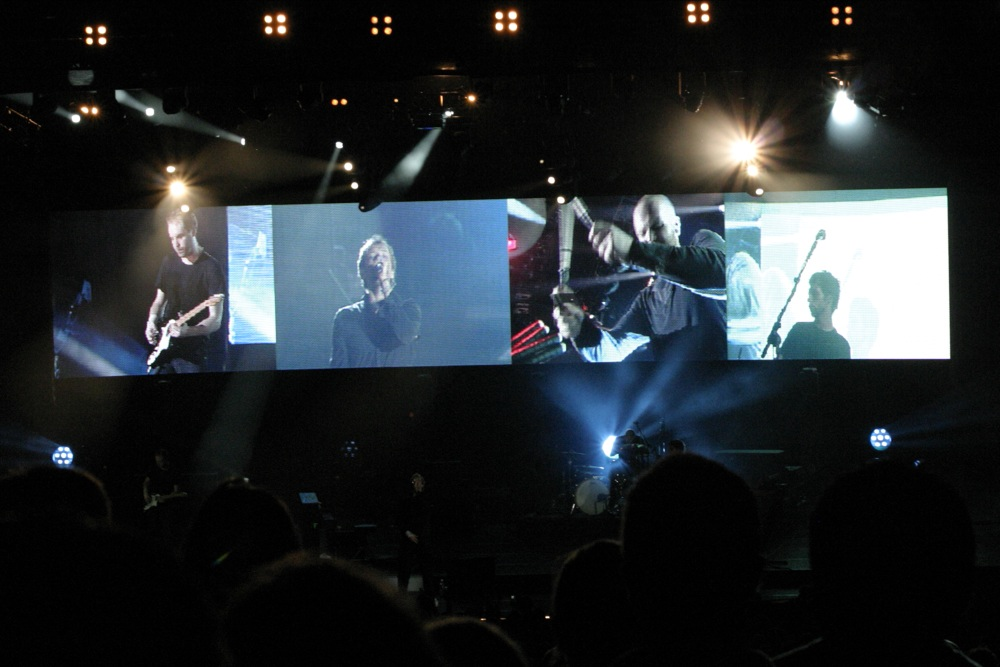 Coldplay is performing Talk (Kansas, 2005)